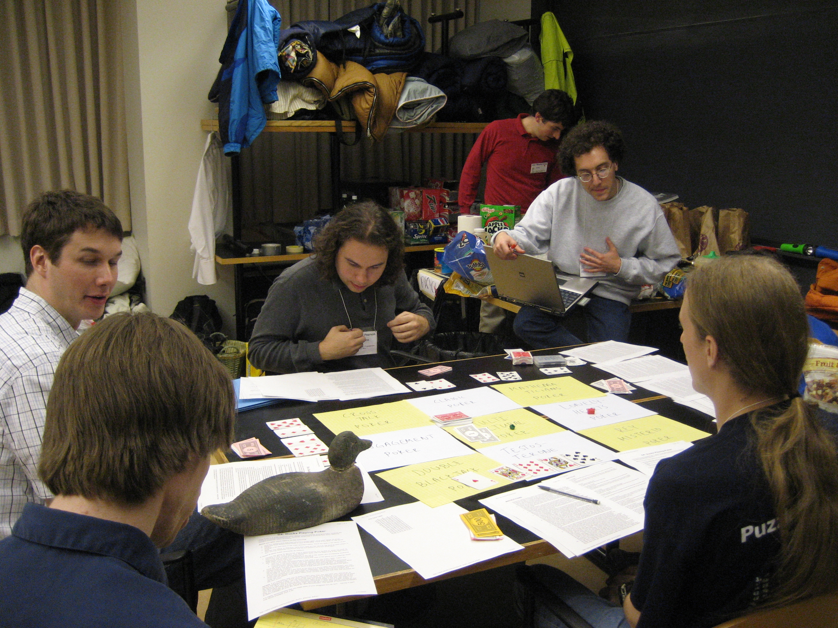 Team Codex solving a puzzle during the 2007 MIT Mystery Hunt. Picture by Barak Michener, username "barakmich" on Flickr. [1]